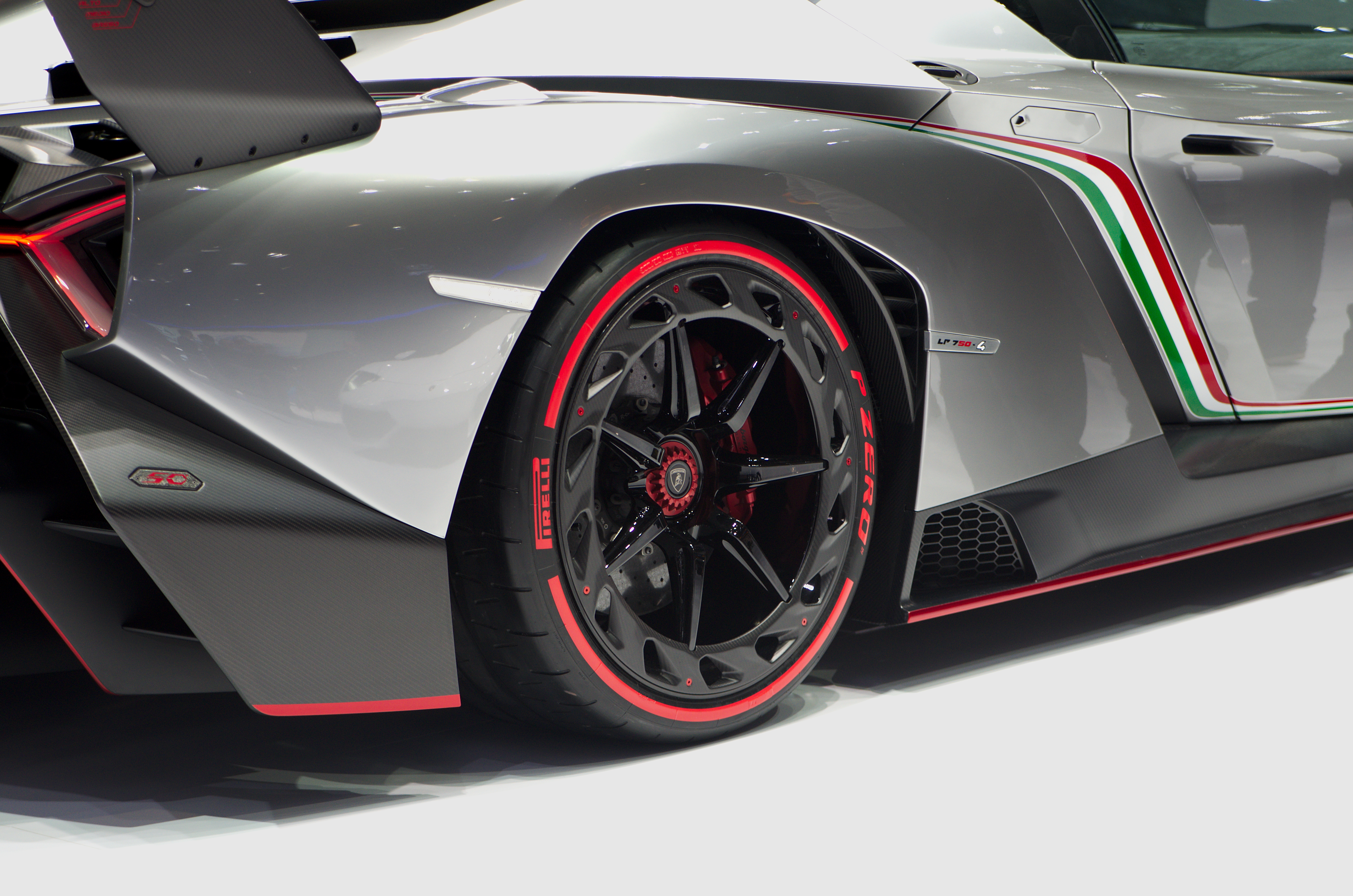 Geneva MotorShow 2013 - Lamborghini Veneno rear wheel